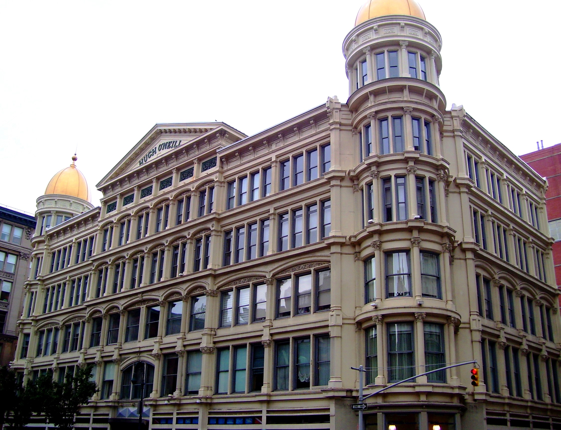 655-671 Avenue of the Americas (Sixth Avenue) between West 20th and 21st Streets in the Flatiron District, Manhattan, New York City. Originally Hugh O'Neill's Dry Goods Store, designed by Mortimer C. Merritt and built in two stages, 1887 and 1890, with an addition in 1895. The corner domes of this cast-ironed building had were recently restored (c.2000). The building in the foreground is 675 Sixth Avenue. (Source: AIA Guide to NYC (4th ed.))